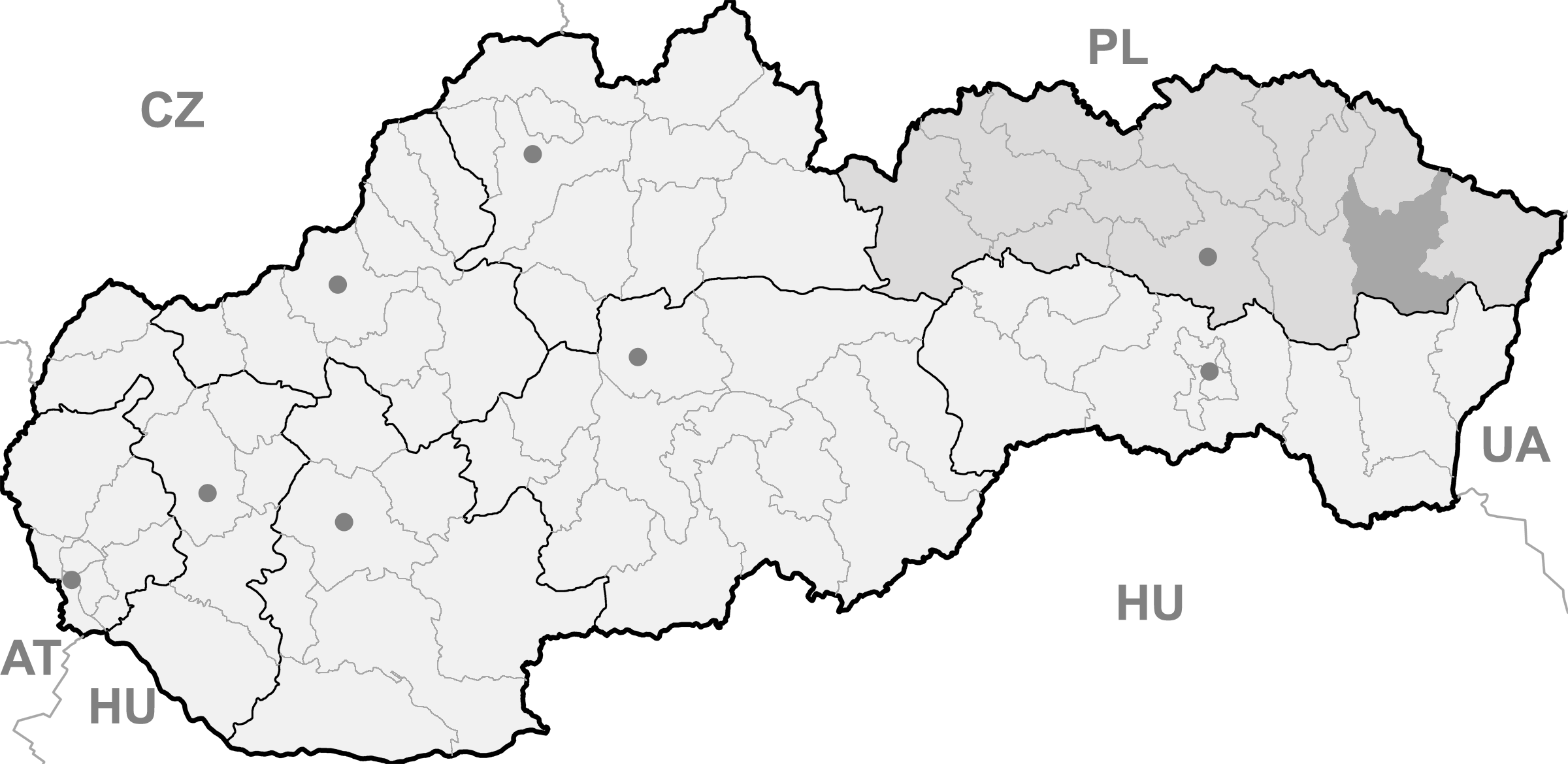 Map of Slovakia, Humenné district and Presov region highlighted